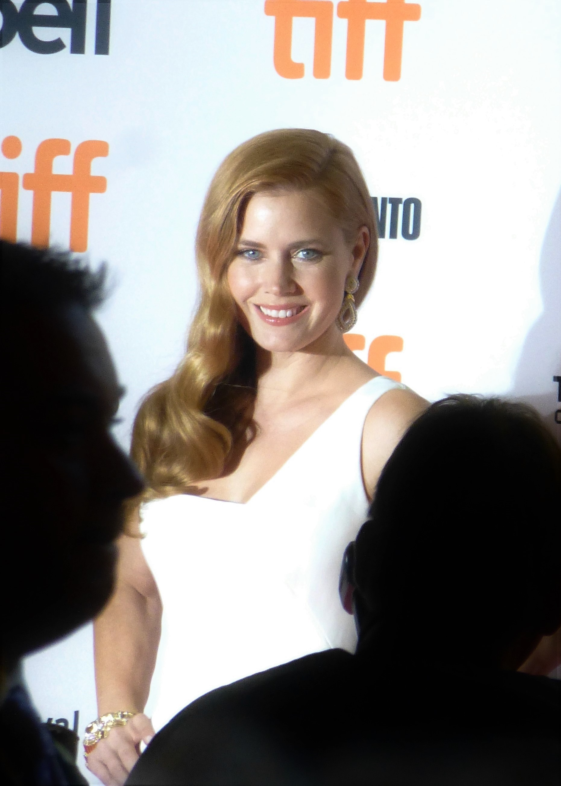 Amy Adams at the premiere of Nocturnal Animals, 2016 Toronto Film Festival